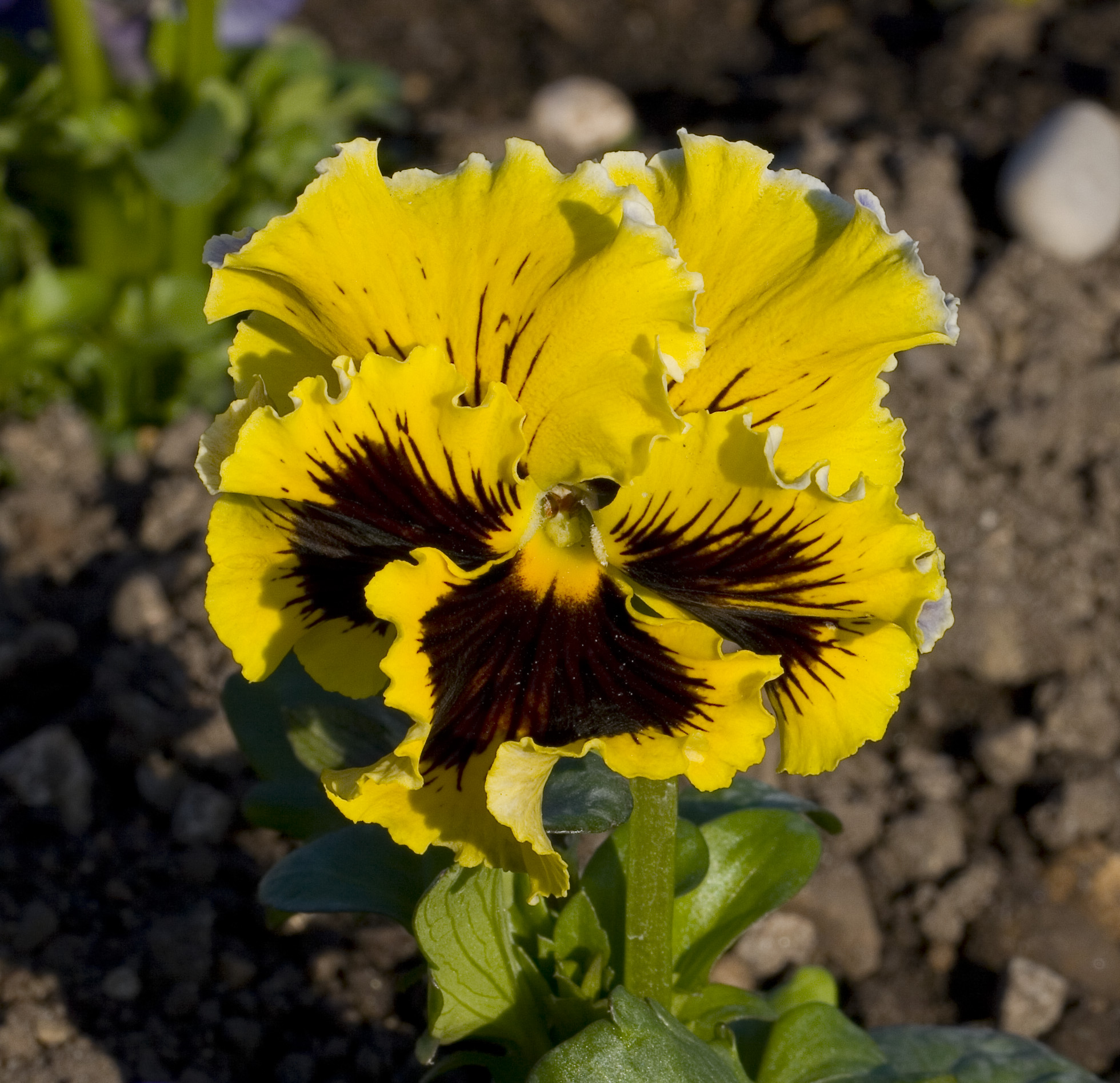 Pansy (Viola wittrockiana), Nymphenburg, Munich, Germany